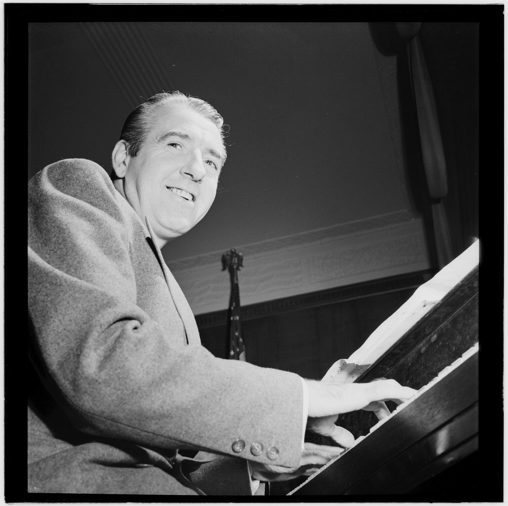 Jess Stacy (August 11, 1904 – January 1, 1995) was an American jazz pianist who became famous during the Swing Era. Gottlieb, William P., 1917-, photographer. Jess Stacy, New York, N.Y.(?), ca. Jan. 1947] 1 negative : b&w ; 2 1/4 x 2 1/4 in. Caption from Down Beat: Jess Stacy and Joe Sullivan: The musical affinity of the Barrelhouse Twins is traditional. The shot of Jess was taken the last night of the existence of the Benny Goodman orchestra. Jess was slated to follow Benny to the coast to assist him with the studio orchestra Benny will use on his radio program. Joe was taken at a Milt Gabler session. Notes: Gottlieb Collection Assignment No. 474 Reference print available in Music Division, Library of Congress. Purchase William P. Gottlieb Forms part of: William P. Gottlieb Collection (Library of Congress). In: The Record Changer, v. 5, no. 11 (Jan. 47, 1947), p. 7. Subjects: Stacy, Jess, 1904- Jazz musicians--1940-1950. Pianists--1940-1950. Format: Portrait photographs--1940-1950. Film negatives--1940-1950. Rights Info: Mr. Gottlieb has dedicated these works to the public domain, but rights of privacy and publicity may apply. Repository: (negative) Library of Congress, Prints & Photographs Division, Washington D.C. 20540 USA, (reference print) Library of Congress, Music Division, Washington D.C. 20540 USA, Part Of: William P. Gottlieb Collection (DLC) 99-401005 General information about the Gottlieb Collection is available at Persistent URL: Call Number: LC-GLB23- 0807